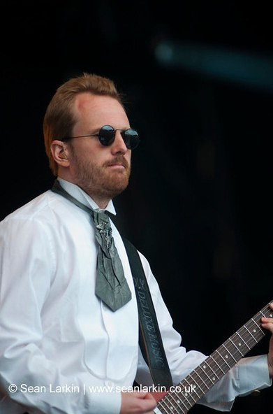 Christofer Johnsson in 2011